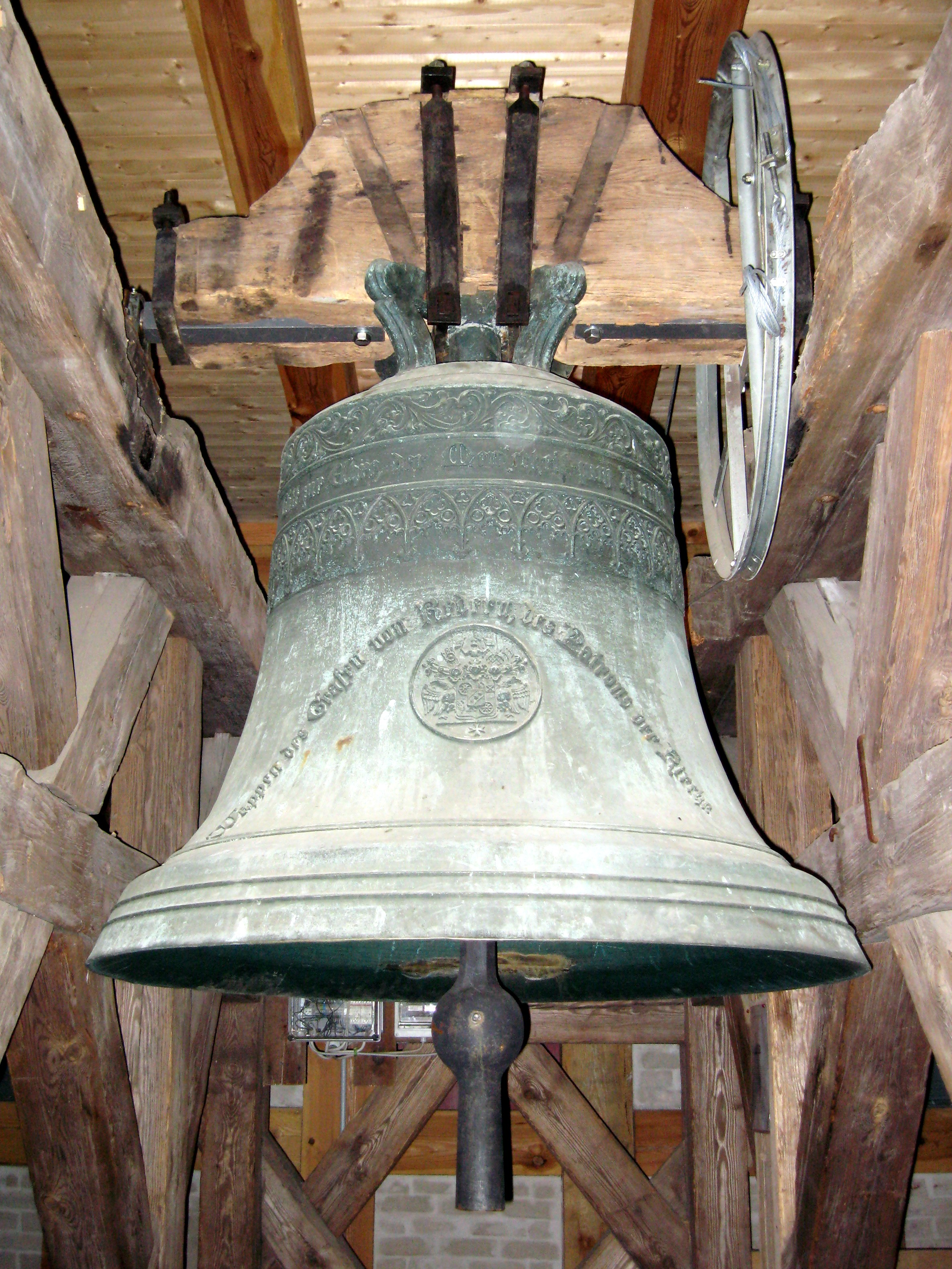 Church in Prenden (Wandlitz) in Brandenburg, Germany